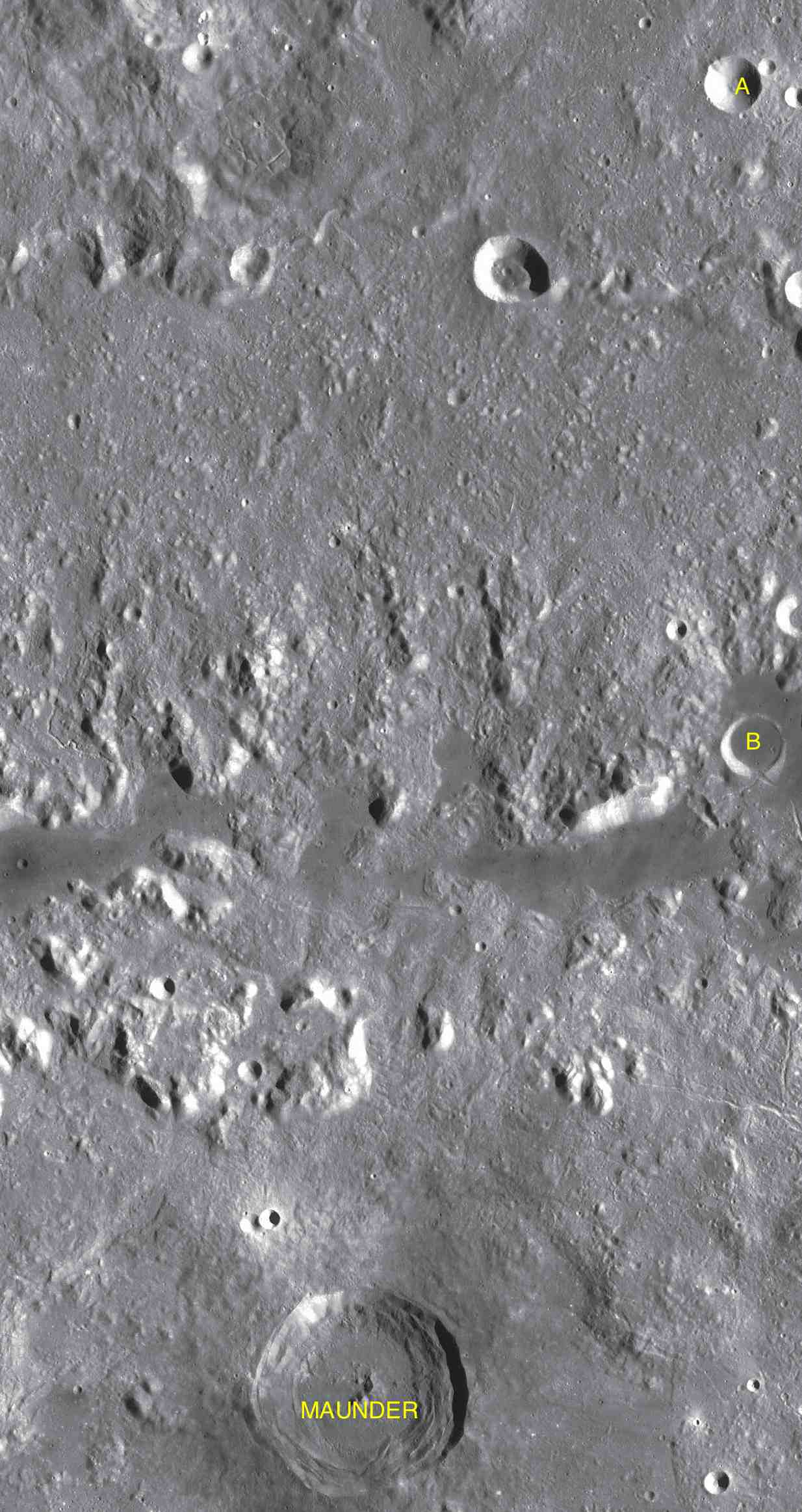 Part of the chart LAC-90 used for the presentation